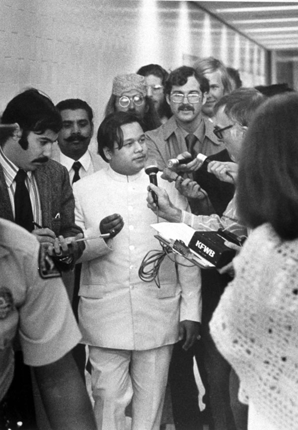 Prem Rawat arriving for the first time to Los Angeles, United States, July 17, 1971. He was known then as Guru Maharaj Ji, a title he dropped in the 1980s. Nowadays he is called Maharaji by his students.